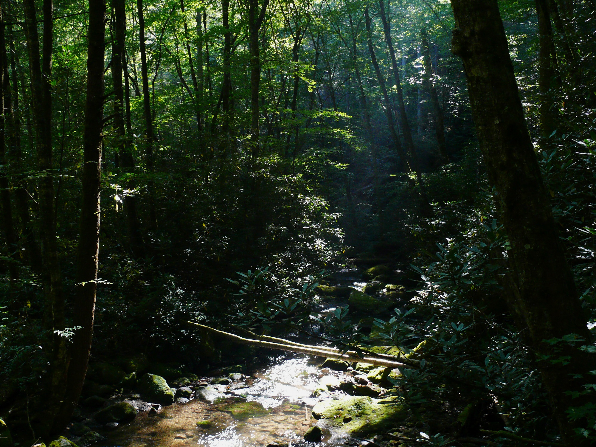 Sunlight penetrates the dense forest canopy over Little Santeetlah Creek in the Joyce Kilmer Memorial Forest. Part of the Nantahala National Forest and the Slickrock Wilderness, the 3840-acre memorial area is one of the few remaining examples of old growth hardwood forest in the eastern United States. The forest is home to many poplar, beech, sycamore and oak trees, some of which exceed 20 feet in circumference, and are thought to be over 400 years old. Photo taken with a Panasonic Lumix DMC-FZ50 in Graham County, NC, USA.